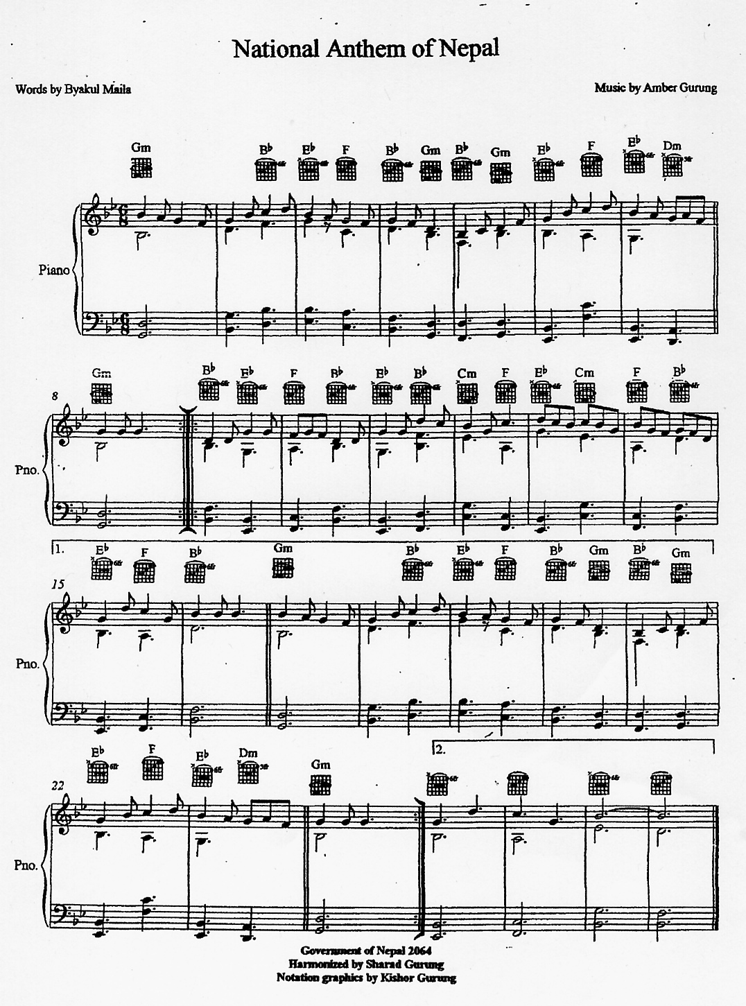 Music notation sheet of the National Anthem of Nepal. नेपाली: नेपालको राष्ट्रिय गानको सङ्गीत लिपि